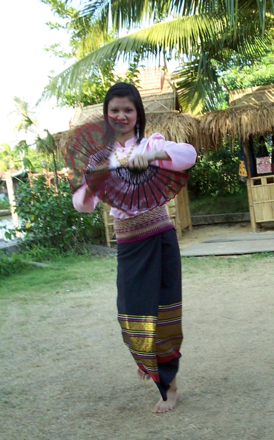 A Thai woman in Yunnan, China